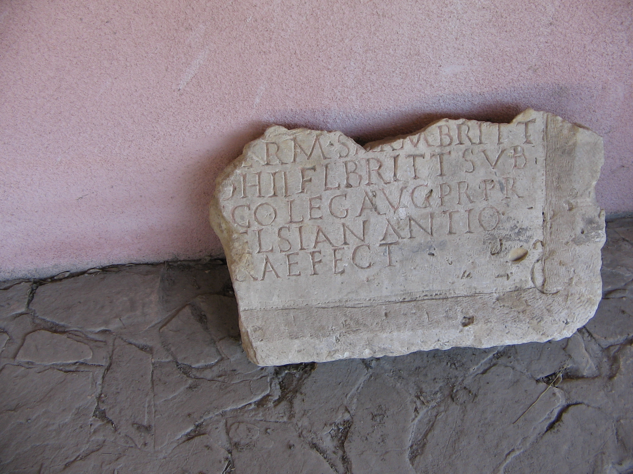 A Roman inscription fragment — an exponent from the Sexaginta Prista castle ruins in Rousse, Bulgaria.